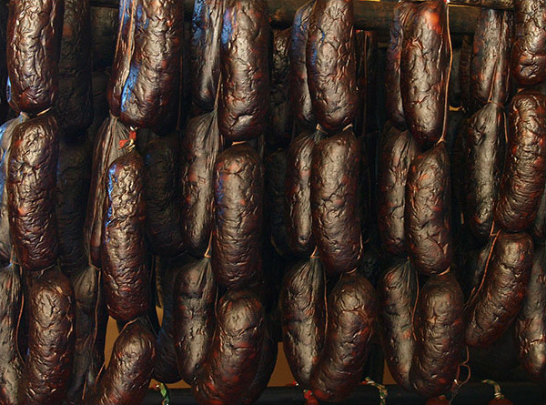 Curado de morcilla asturiana